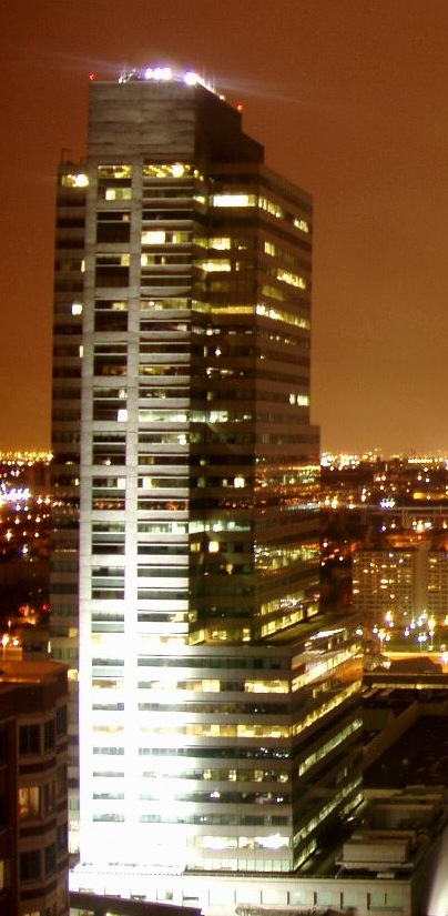 Newport Tower in Jersey City, New Jersey, from Liberty Towers. Photo by Derek Jensen (Tysto), 2004-April-14